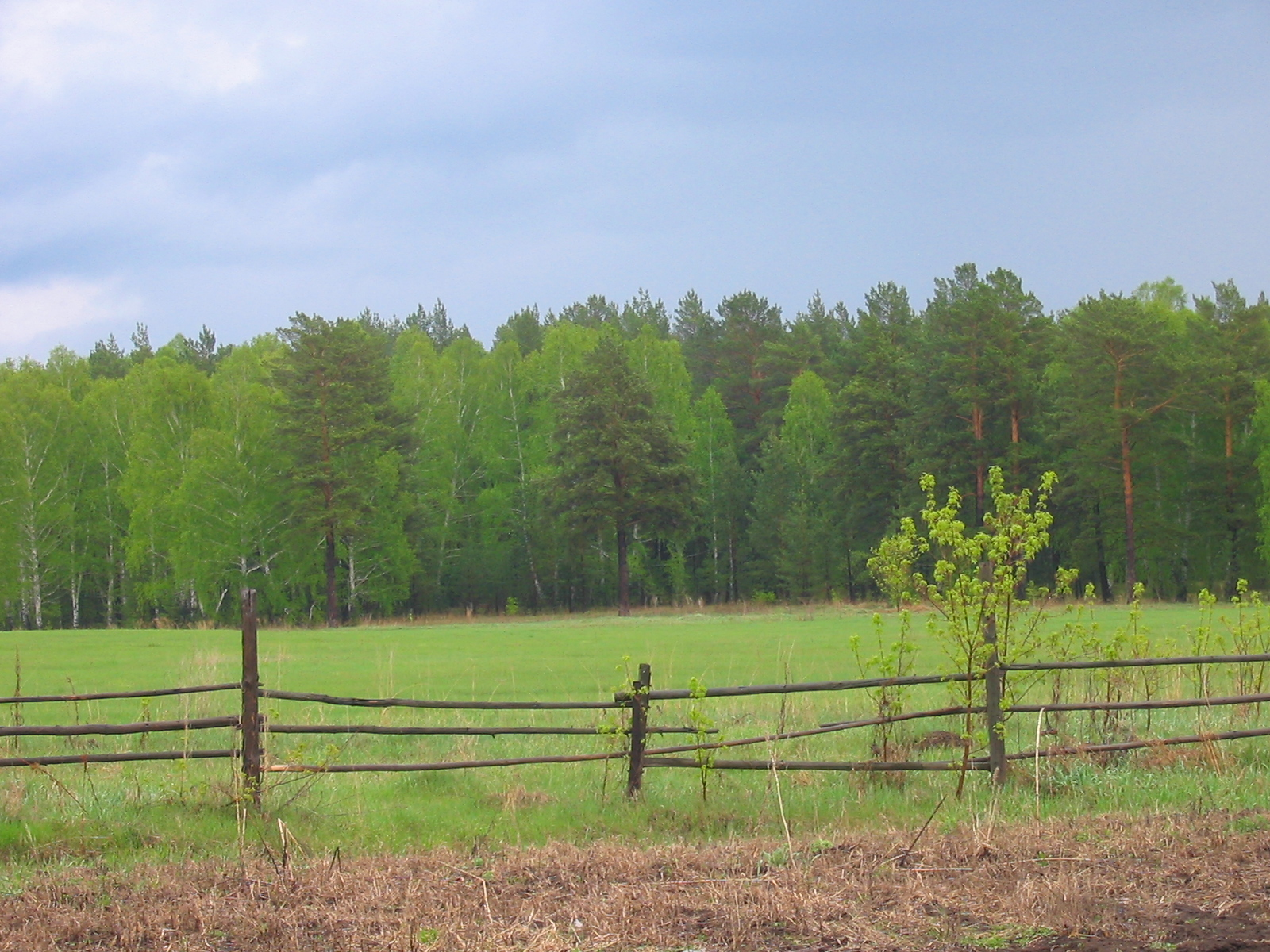 Mixed forest at spring